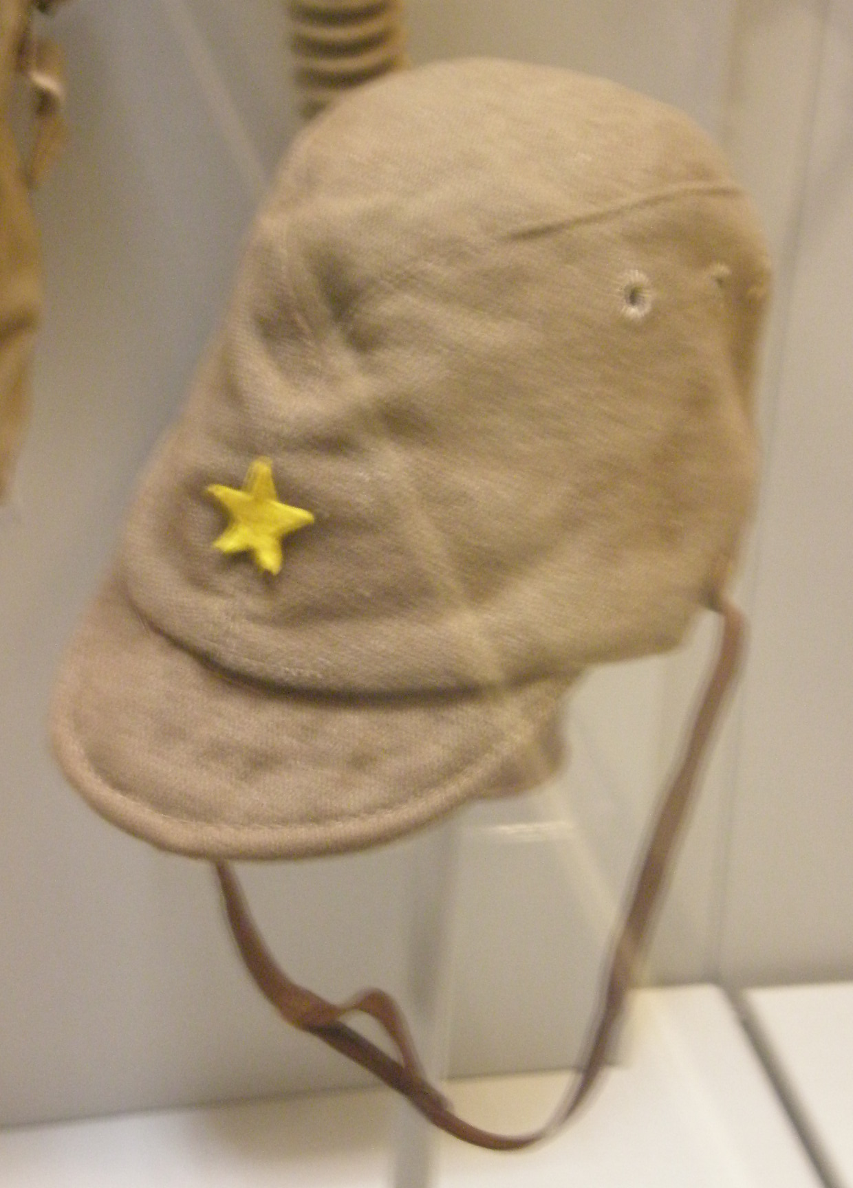 A World War II Imperial Japanese soldier's cap on display at the Hong Kong Museum of Coastal Defence.